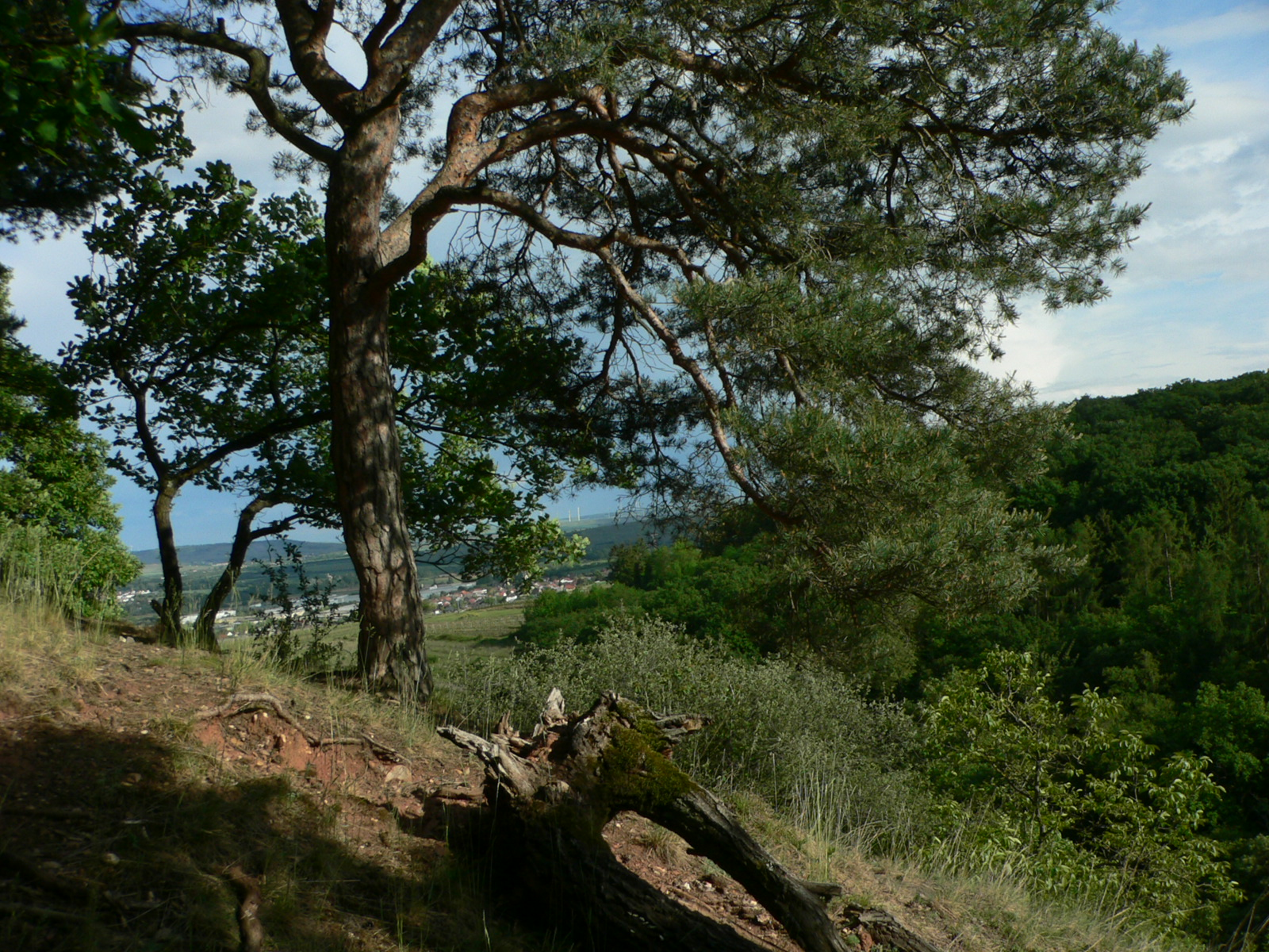 At "Fichtenkopf" in the forest of Langenlonsheim (Germany)